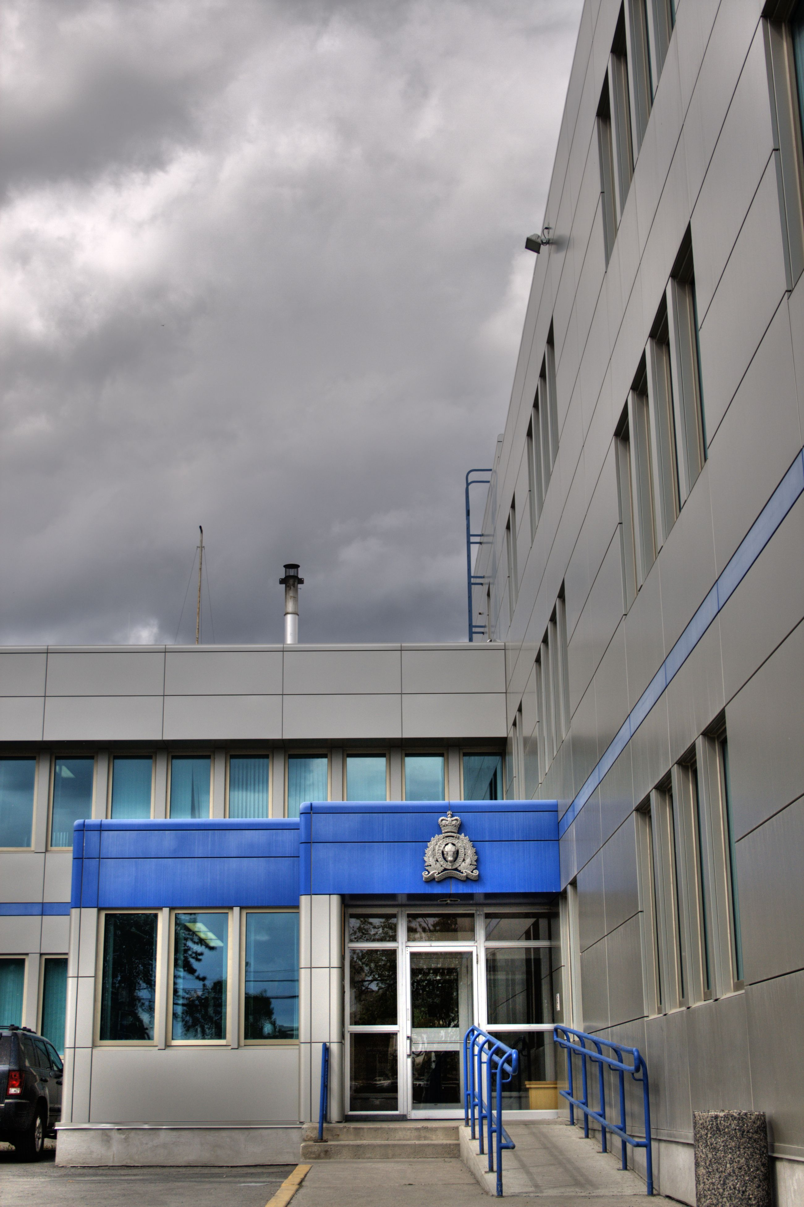 An entrance into the Henry Larson Building, housing the the Yellowknife RCMP Detachment in Yellowknife, Northwest Territories, Canada.